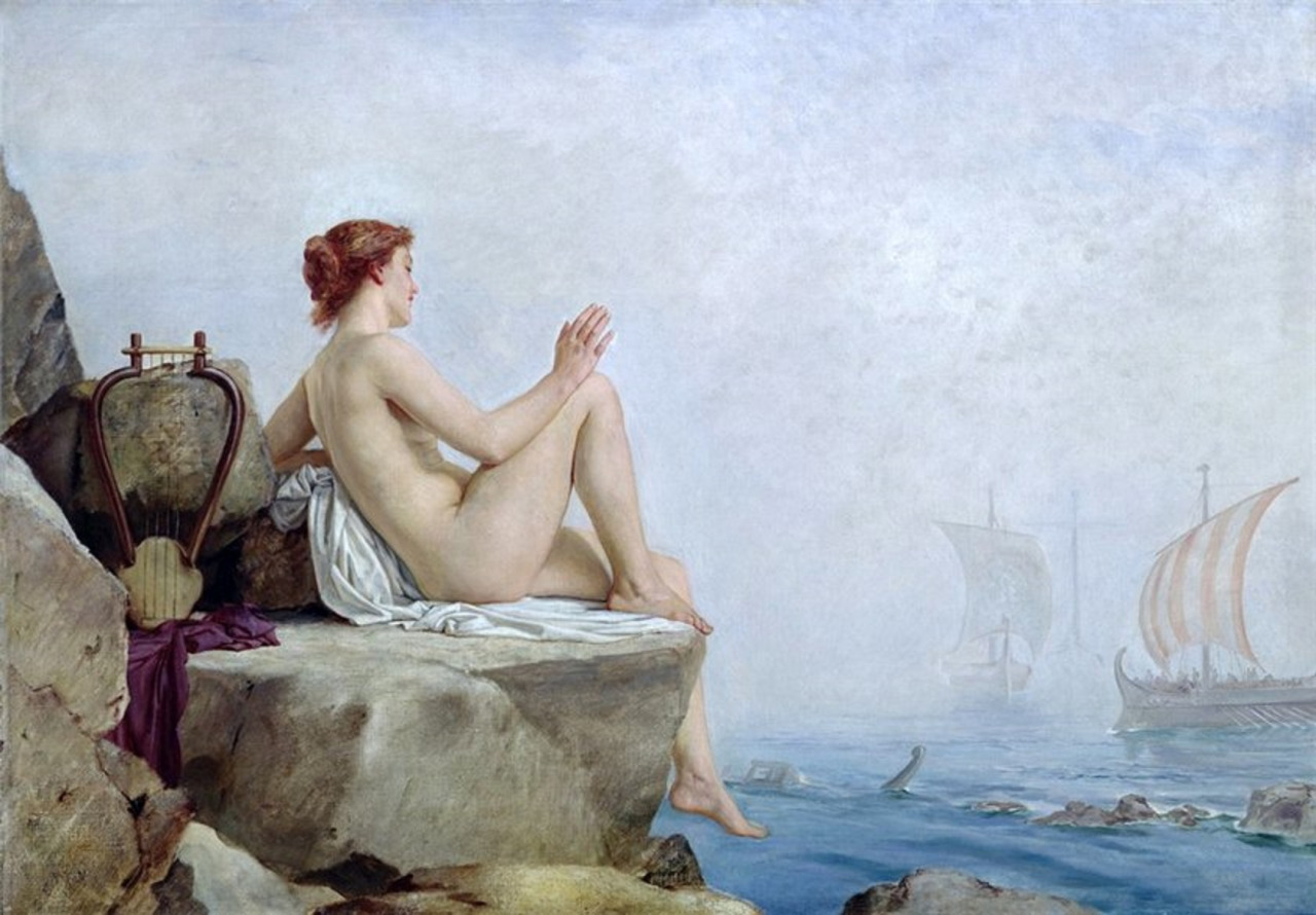 The Siren